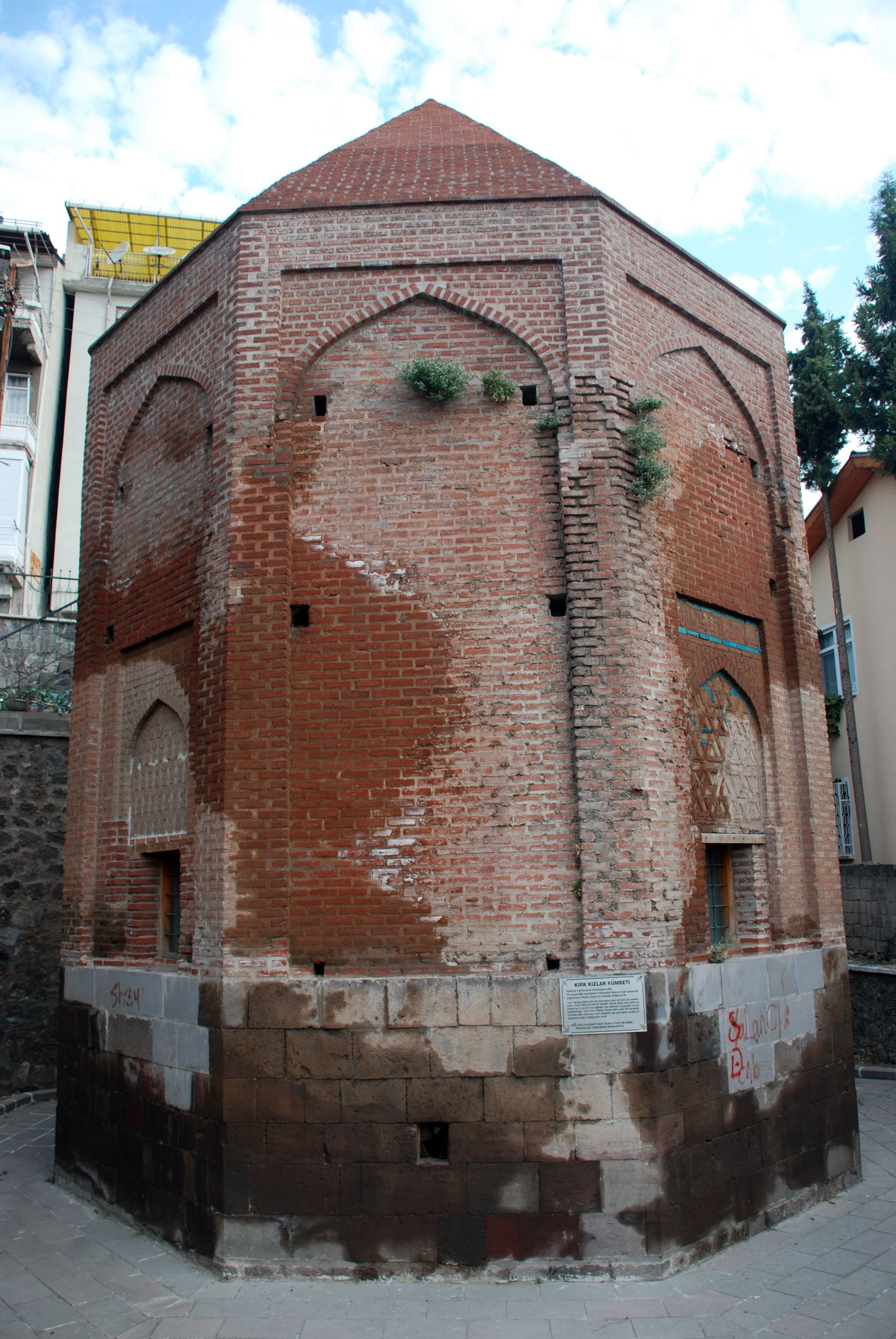 Niksar, Tokat province, Kırk Kızlar Türbesi